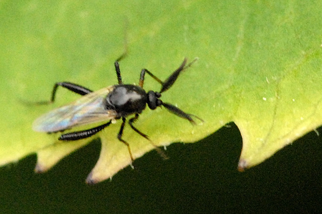 Serromyia femorata from Commanster, Belgian High Ardennes .